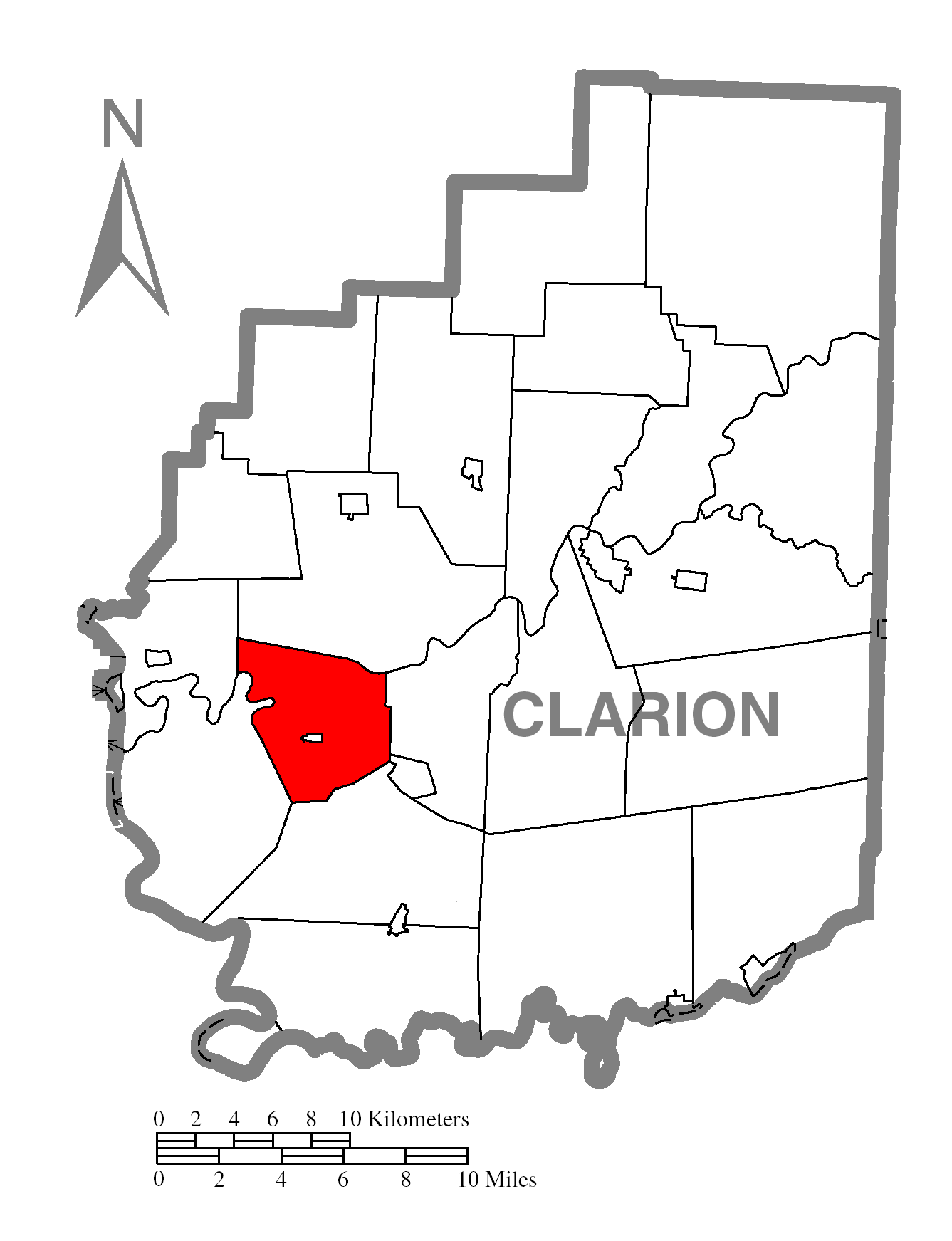 A map of Clarion County showing Licking Township, Pennsylvania (alternate) highlighted on the map.